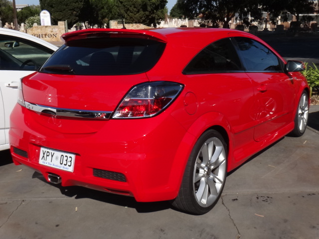 Just like Opel in Europe has OPC, here in Australia we have HSV - Holden Special Vehicles. Here is the HSV VXR. Sold in small numbers, these things actually have a bit of a cult following here and are loved by pretty much everyone who has ever owned one. Sold by HSV and imported by Holden, these also featured Vauxhall's 'V' grill at the front - with the HSV badge, but also had the Opel badge on the steering wheel!!